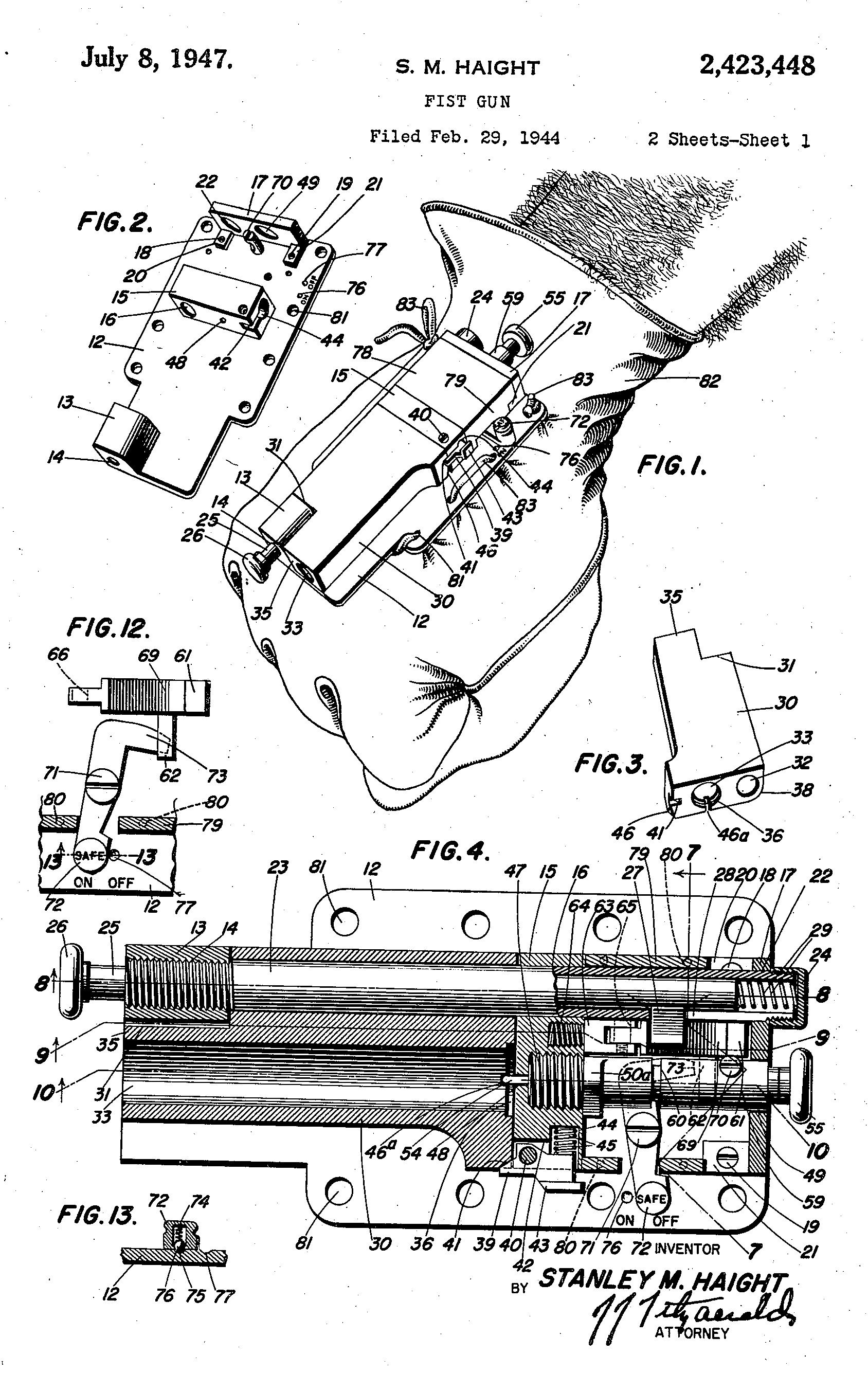 US Patent US2423448 for the Haight Fist Gun